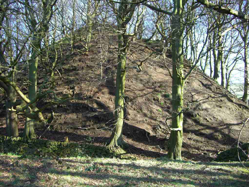 Personal picture taken by Mick Knapton